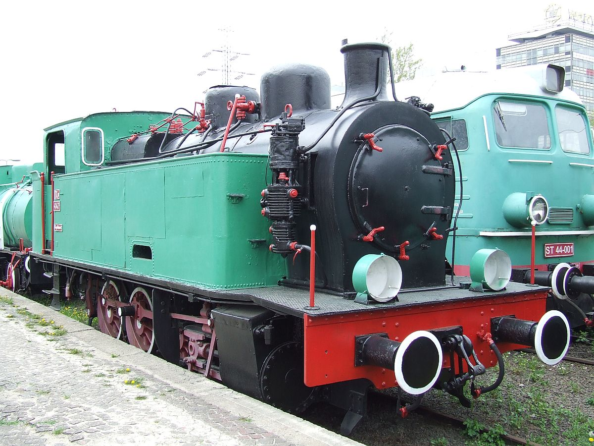 Locomotive TKp 4147, produced: La Meuse, Belgium, 1942, factory nr. 4147, Muzeum Kolejnictwa, Warsaw